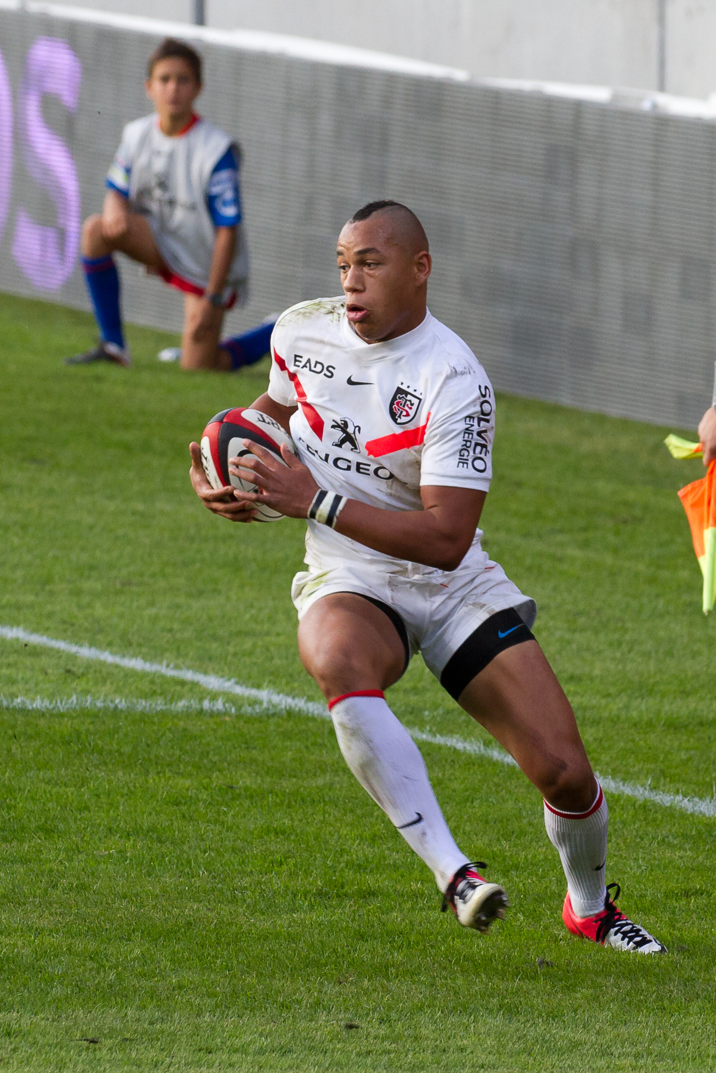 Top 14 — 8 September 2012, Stade Ernest-Wallon. Match between: Stade toulousain — SU Agen